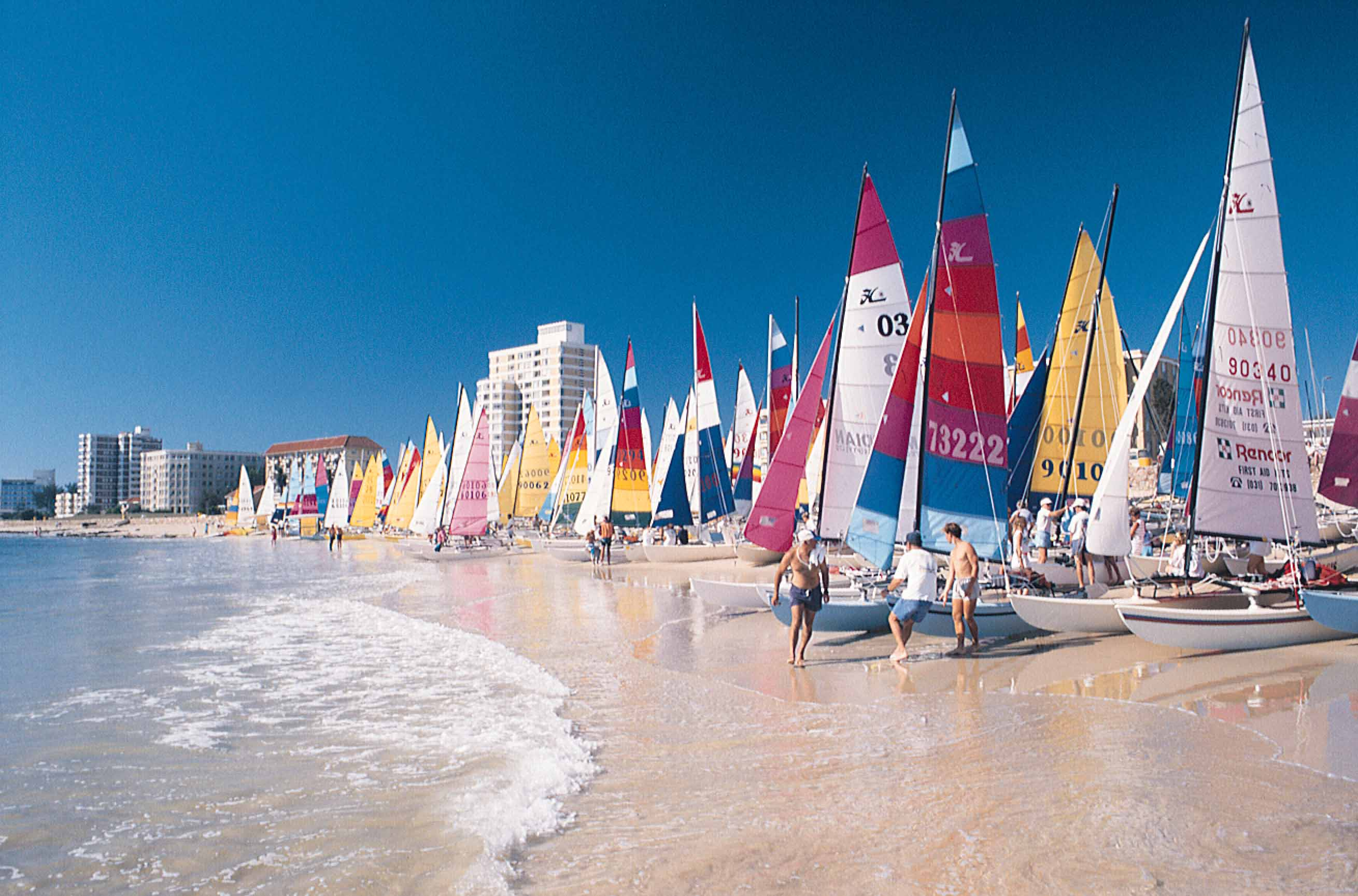 Hobie Beach in Port Elizabeth attracts water sports fanatics and families with its clean, white sands, playful surf and variety of entertainment. Vue de l'Eastern Cape en Afrique du Sud.